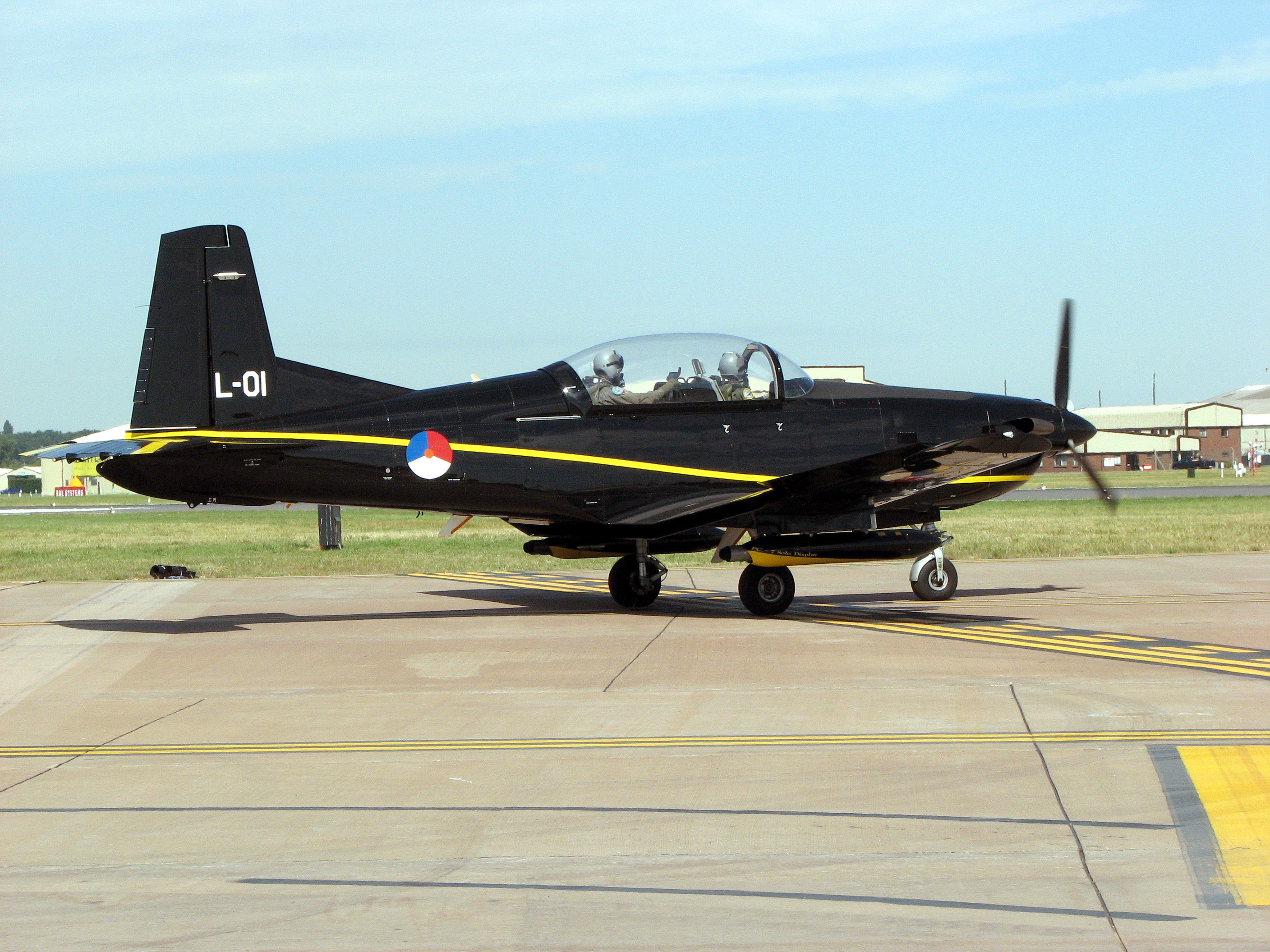 Pilatus PC-7 Turbotrainer of the Royal Netherlands Air Force (identifier L-01) taxis for takeoff at the Royal International Air Tattoo, Fairford, Gloucestershire, England. Photographed by Adrian Pingstone on July 17th 2006 and released to the public domain.